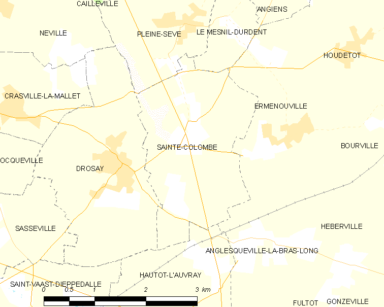 Map of French municipality Sainte-Colombe